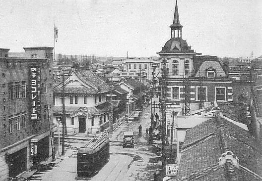 Basho no Tsuji circa 1930